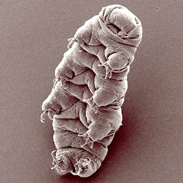 Water bear (tardigrade), Hypsibius dujardini, scanning electron micrograph by Bob Goldstein and Vicky Madden.